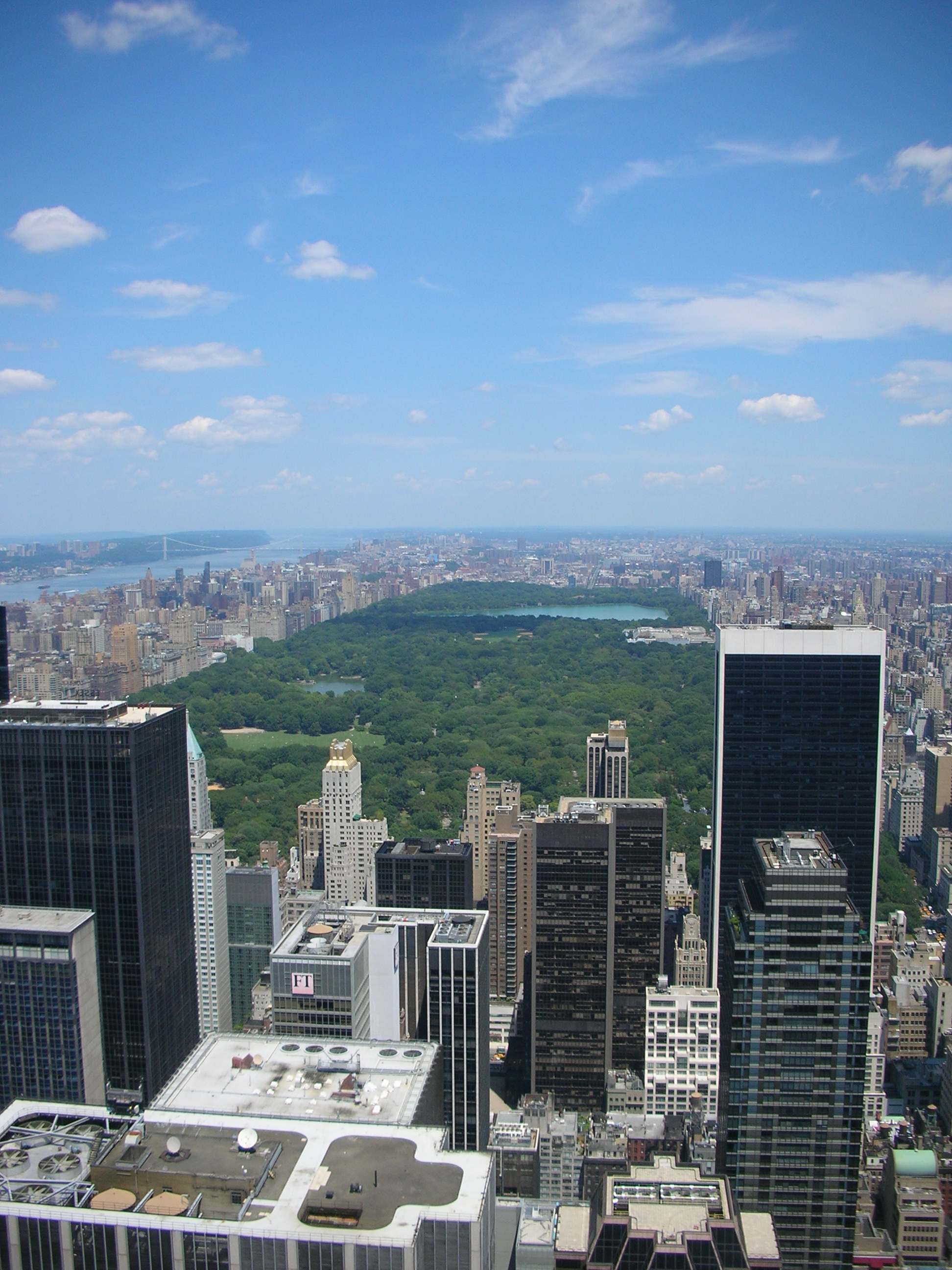 Central Park and New York City from Rockefeller Center in New York, USA